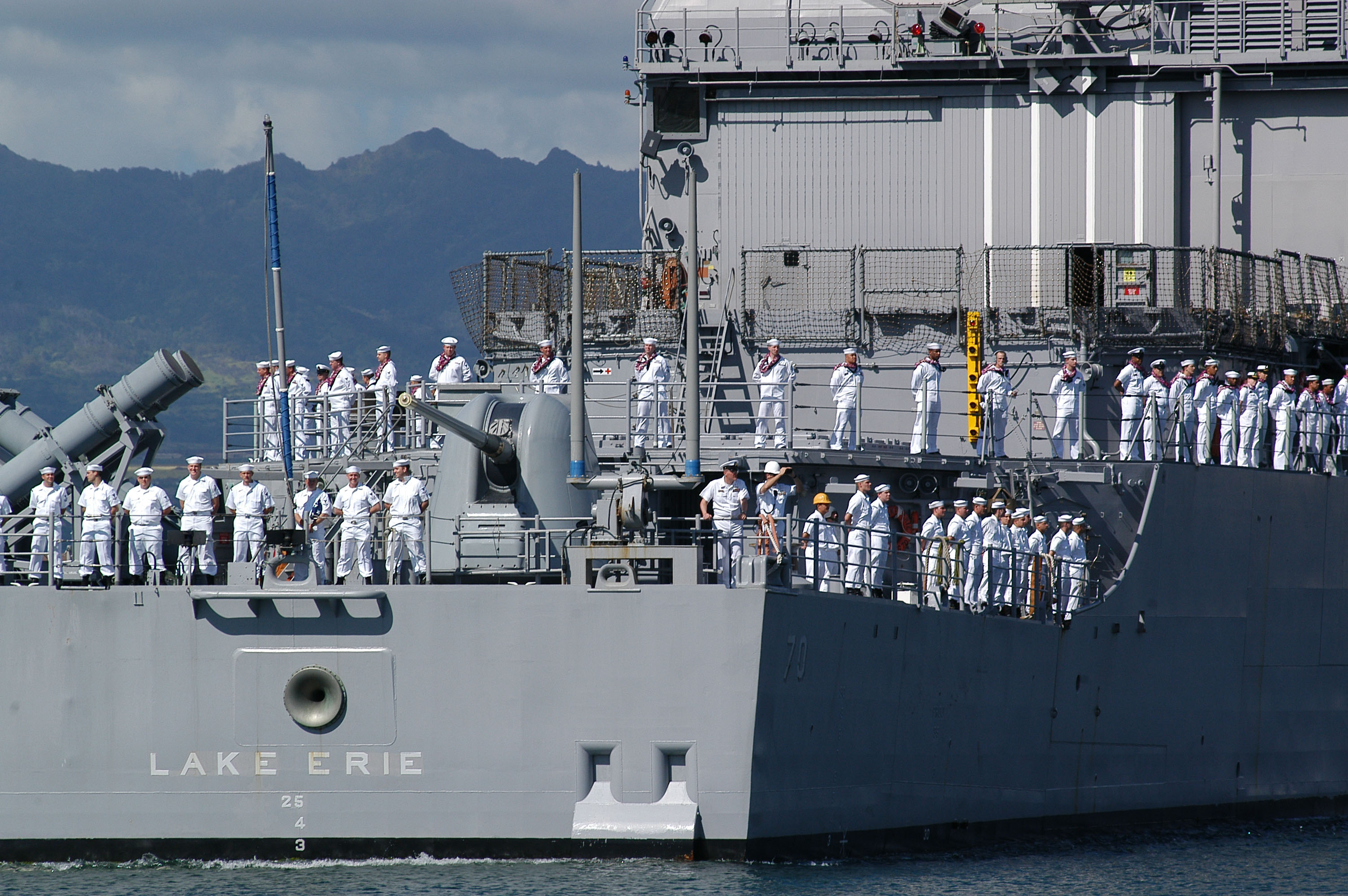 The guided-missile cruiser USS Lake Erie (CG 70), and her crew of more than 400 Sailors, Commanded by Capt. Joseph A. Horn, Jr., returns to Pearl Harbor after a four-month deployment to the Western Pacific in support of the Global War on Terrorism